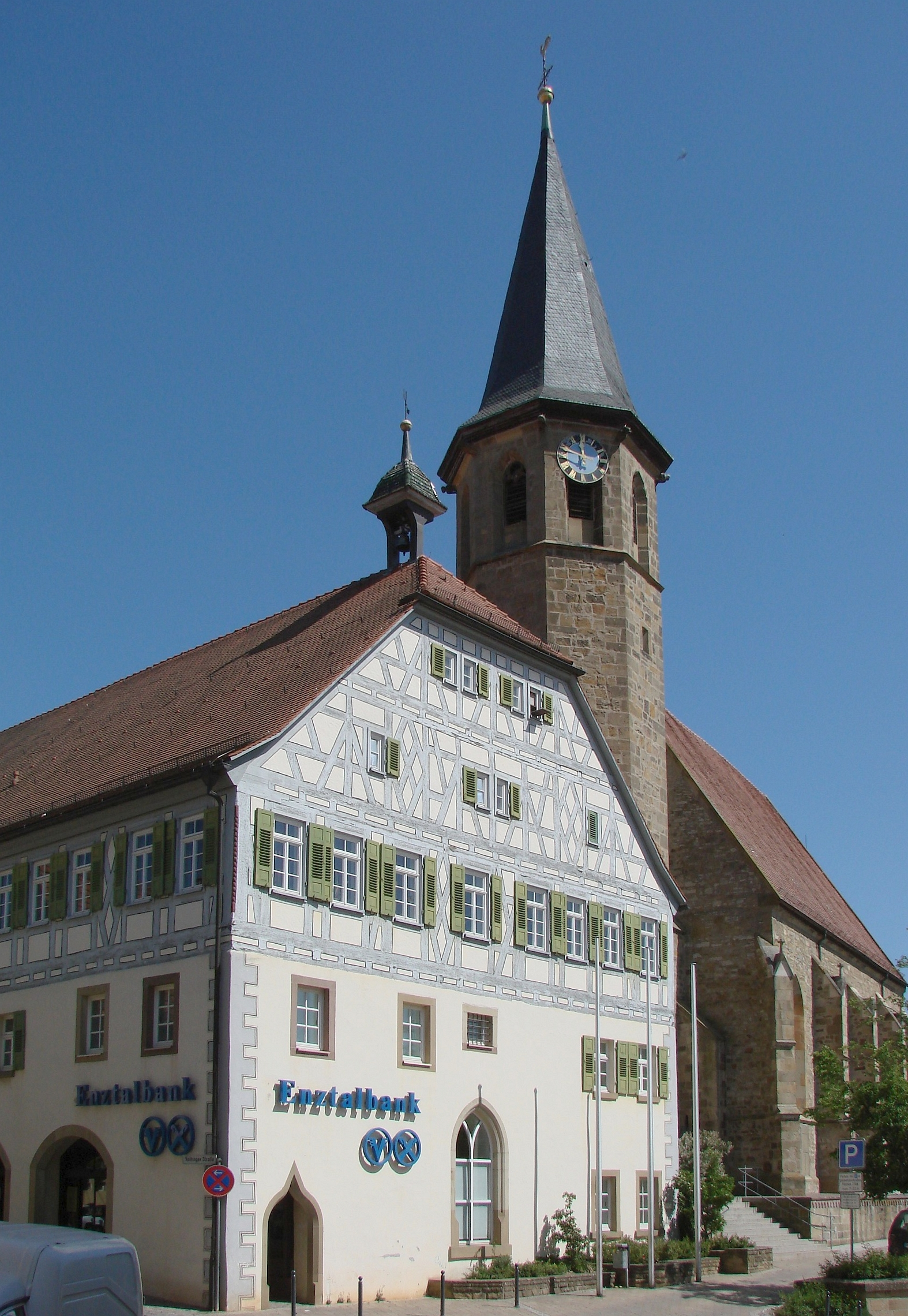 Enzweihingen, town hall and protestant church of St. Martin